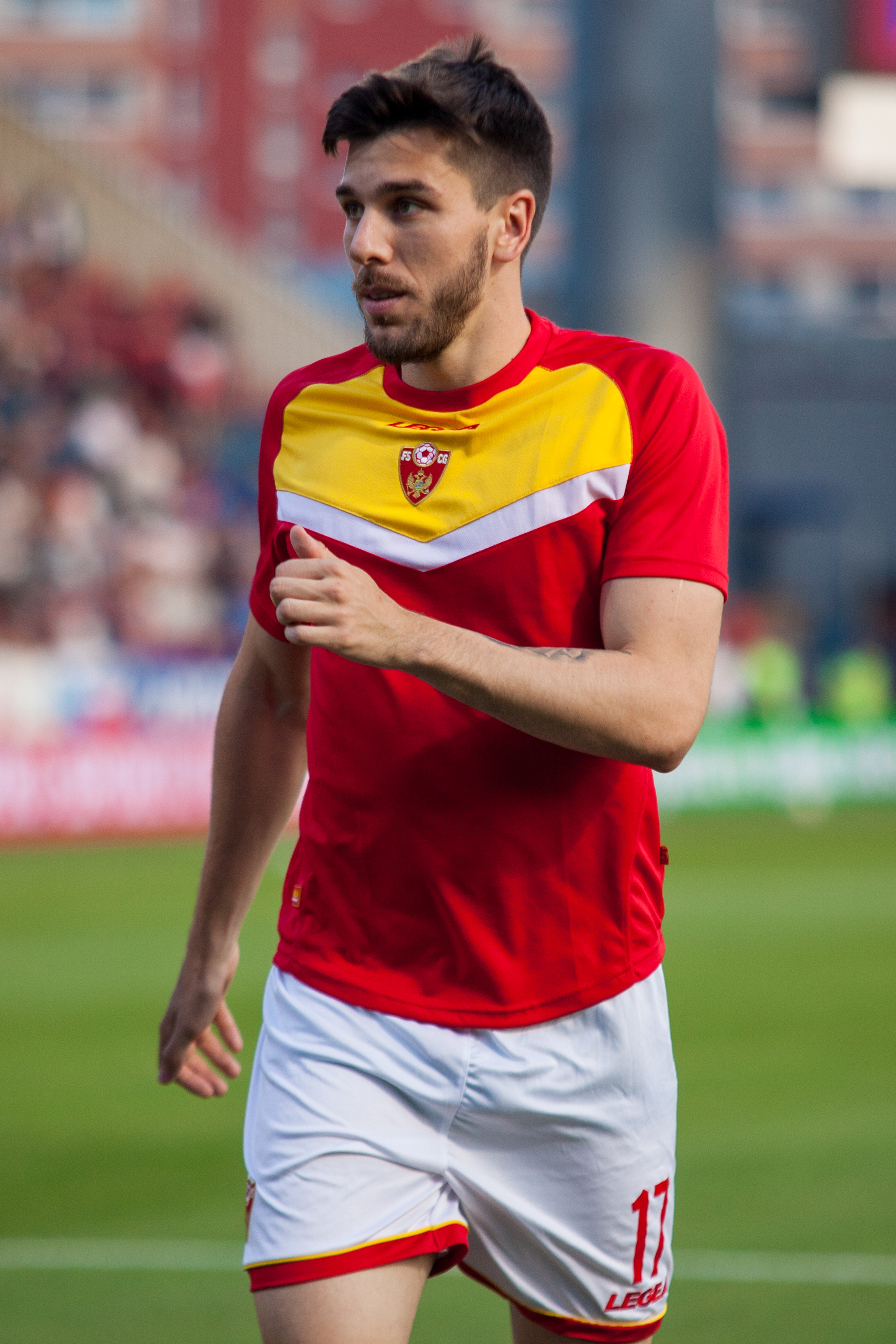 Dušan Lagator at EURO 2020 Qualifying Round Czech Republic-Montenegro (10/6/2019, Ander Stadium, Olomouc) Personality rights warningAlthough this work is freely licensed or in the public domain, the person(s) shown may have rights that legally restrict certain re-uses unless those depicted consent to such uses. In these cases, a model release or other evidence of consent could protect you from infringement claims.